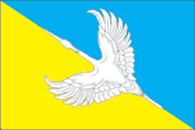 Flag of Kurlovo, Vladimirskaya oblast, Russia